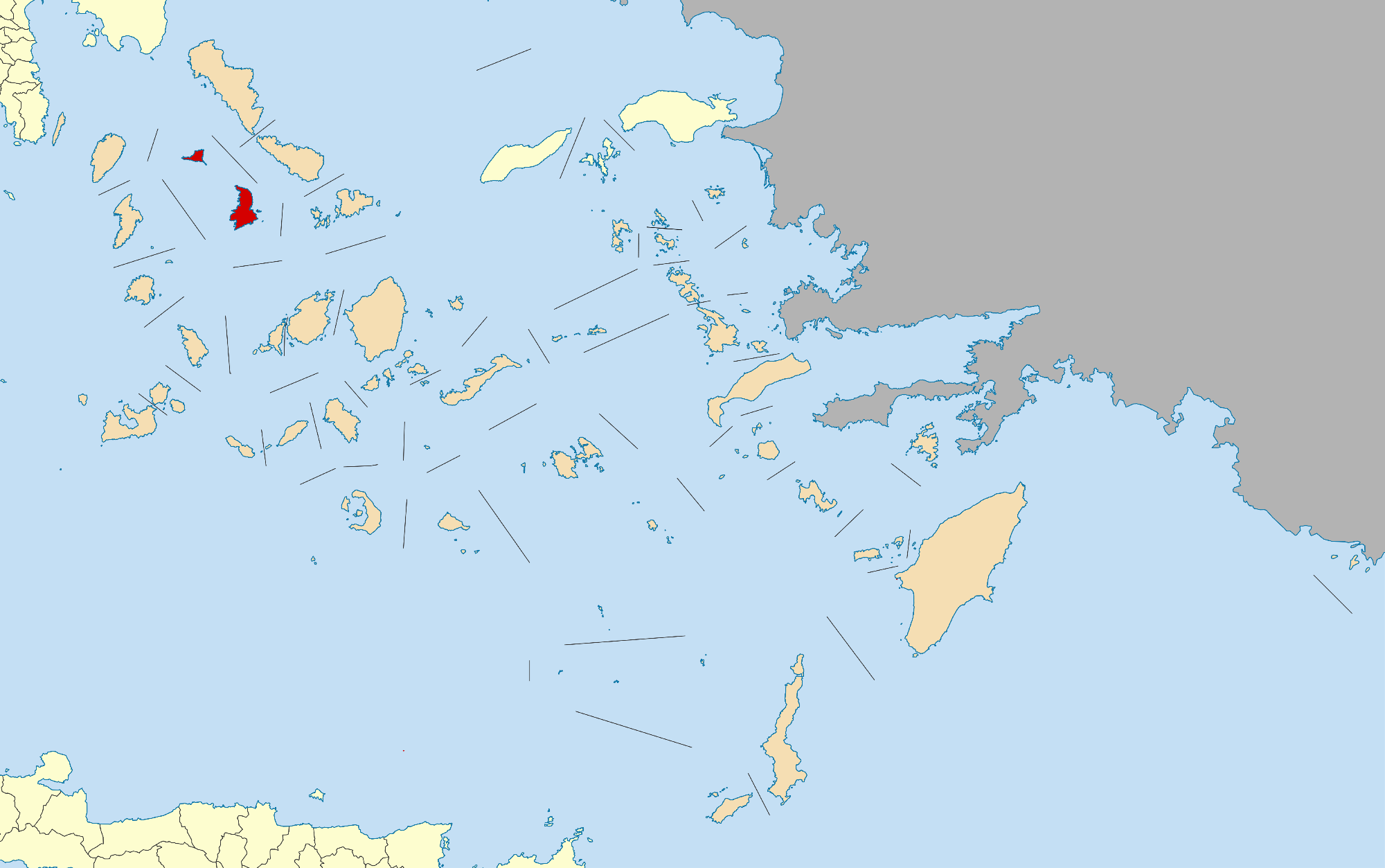 Locator map for Syros-Ermoupoli municipality in Greek region South Aegean (2011)